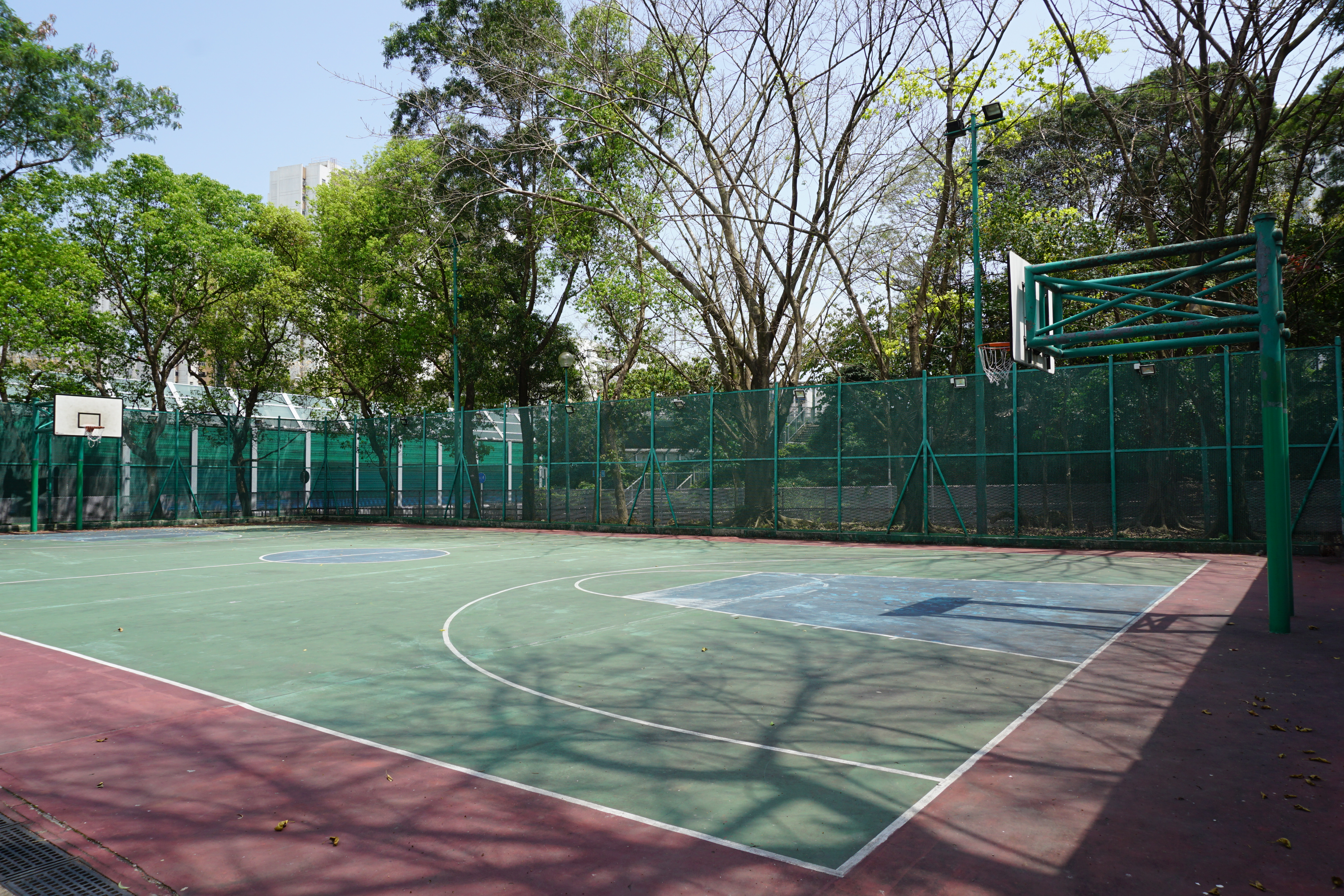 Tai Ping Estate in Sheung Shui, Hong Kong.